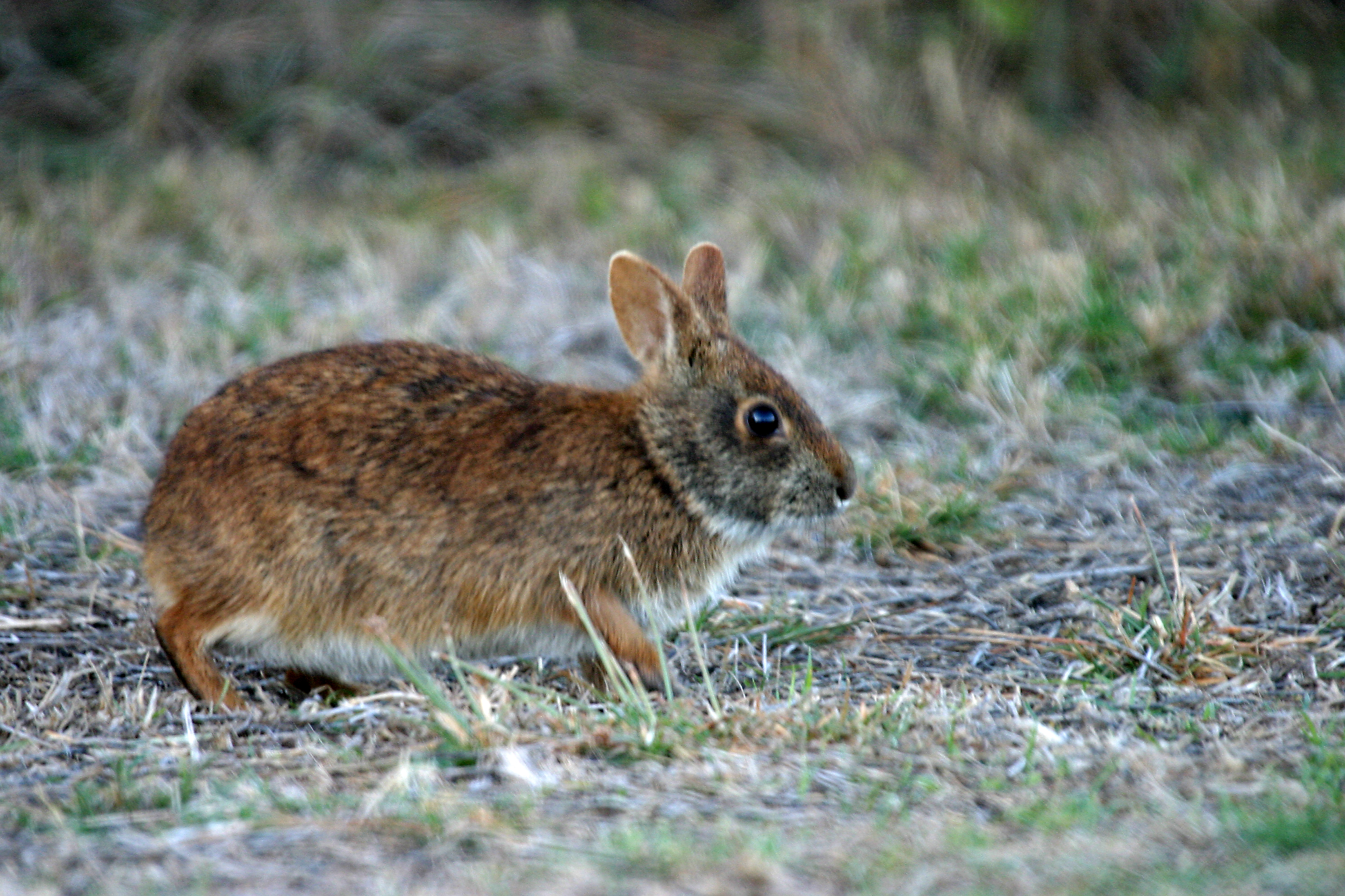 Marsh Rabbit NPSPhoto, R. Cammauf